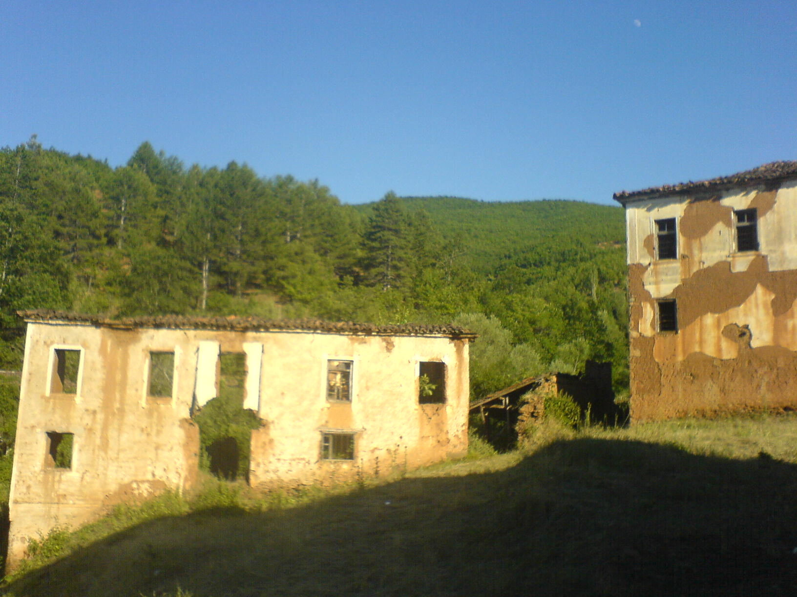 Village of Drenoveni or Kranionas, Macedonia, Greece.